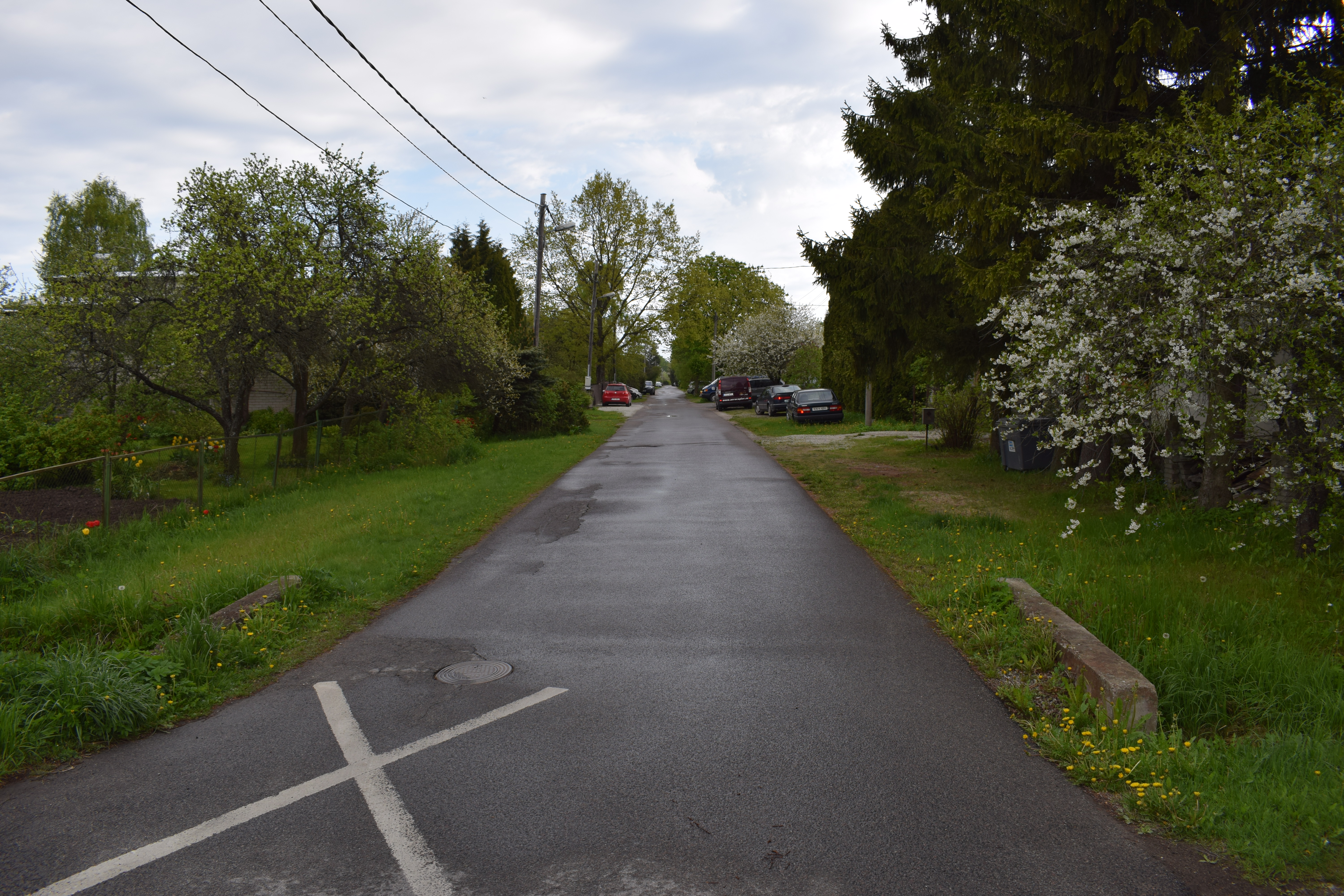 Räitsaka street